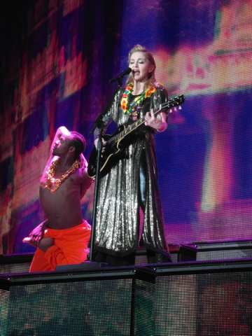 Madonna concert in Barcelona